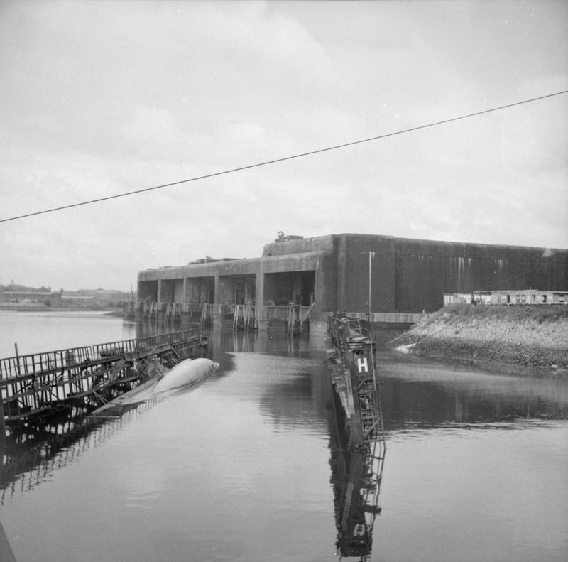 Germany Under Allied Occupation German U-Boat pens at Hamburg with a scuttled U-Boat in the foreground.